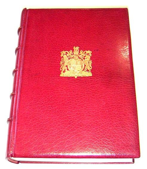 The catalogue for the The Royal Philatelic Collection, published 1952. De-luxe editon in leather cover without the slip case.